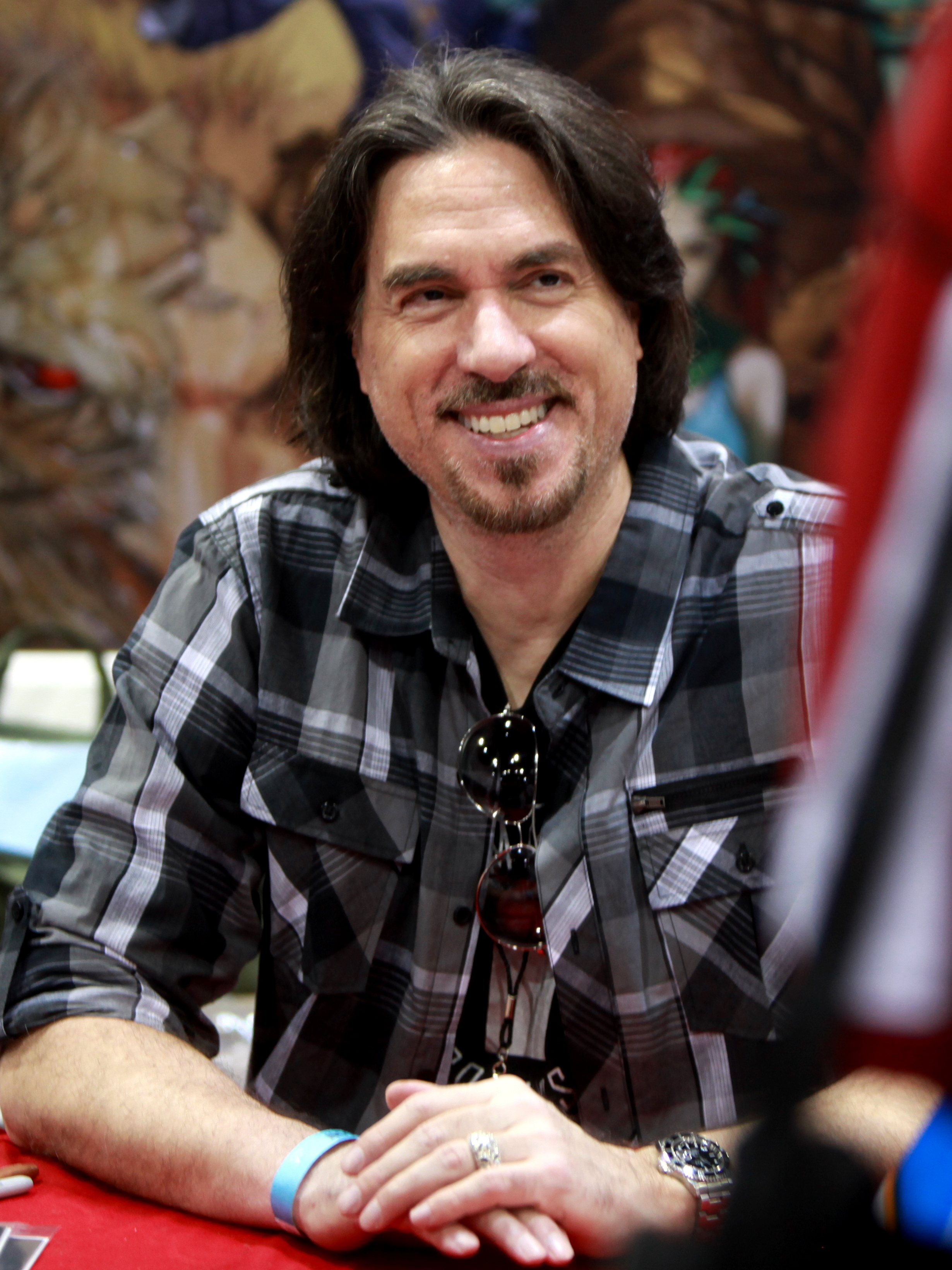 Marc Silvestri signing autographs at the 2014 Amazing Arizona Comic Con at the Phoenix Convention Center in Phoenix, Arizona.